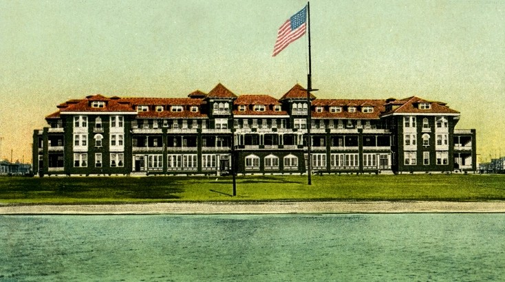 Great Southern Hotel, Gulfport, Harrison County, Mississippi, USA, as viewed from the Mississippi Sound, Gulf of Mexico.